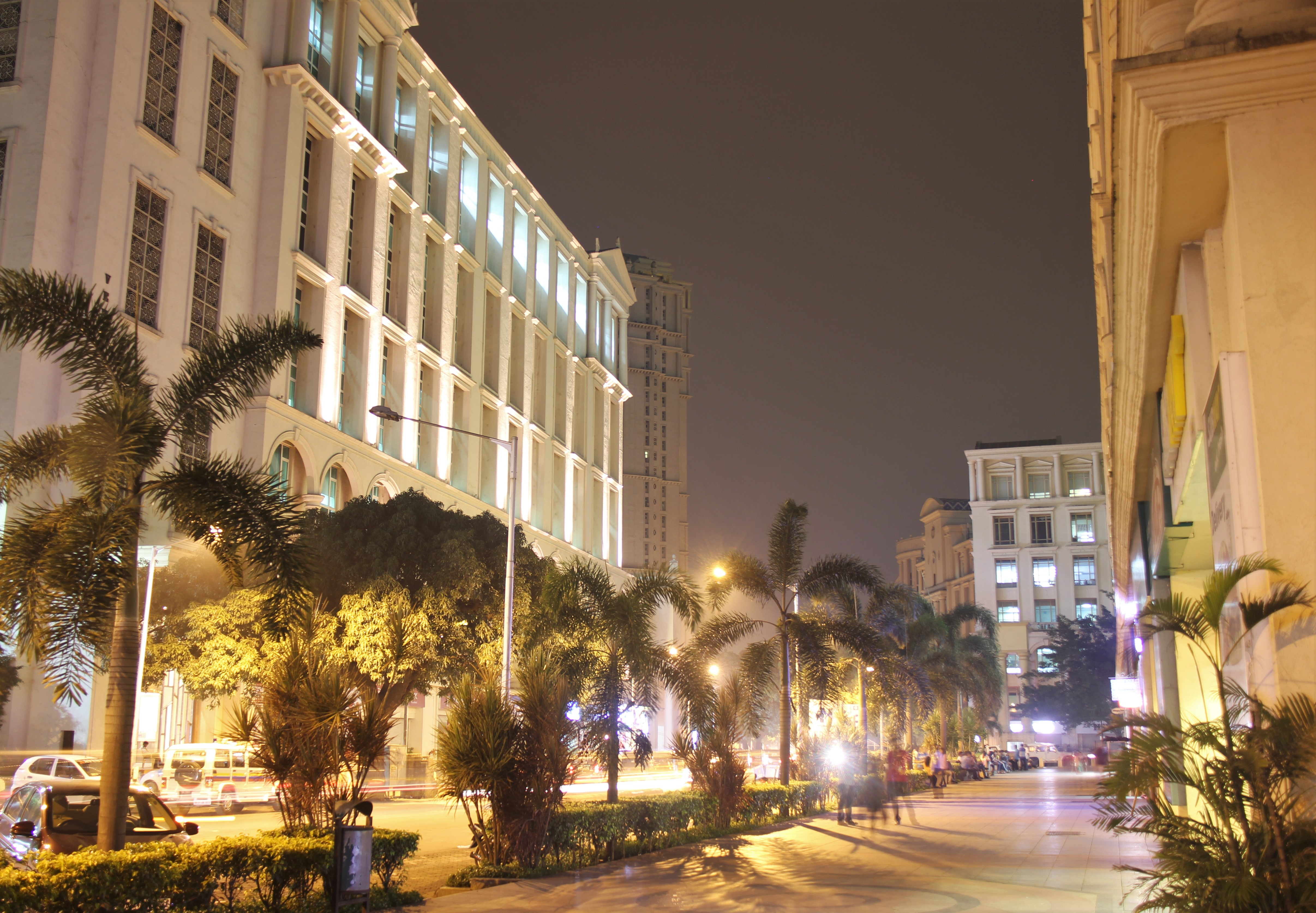 Night view of Central Avenue in Hiranandani, Powai